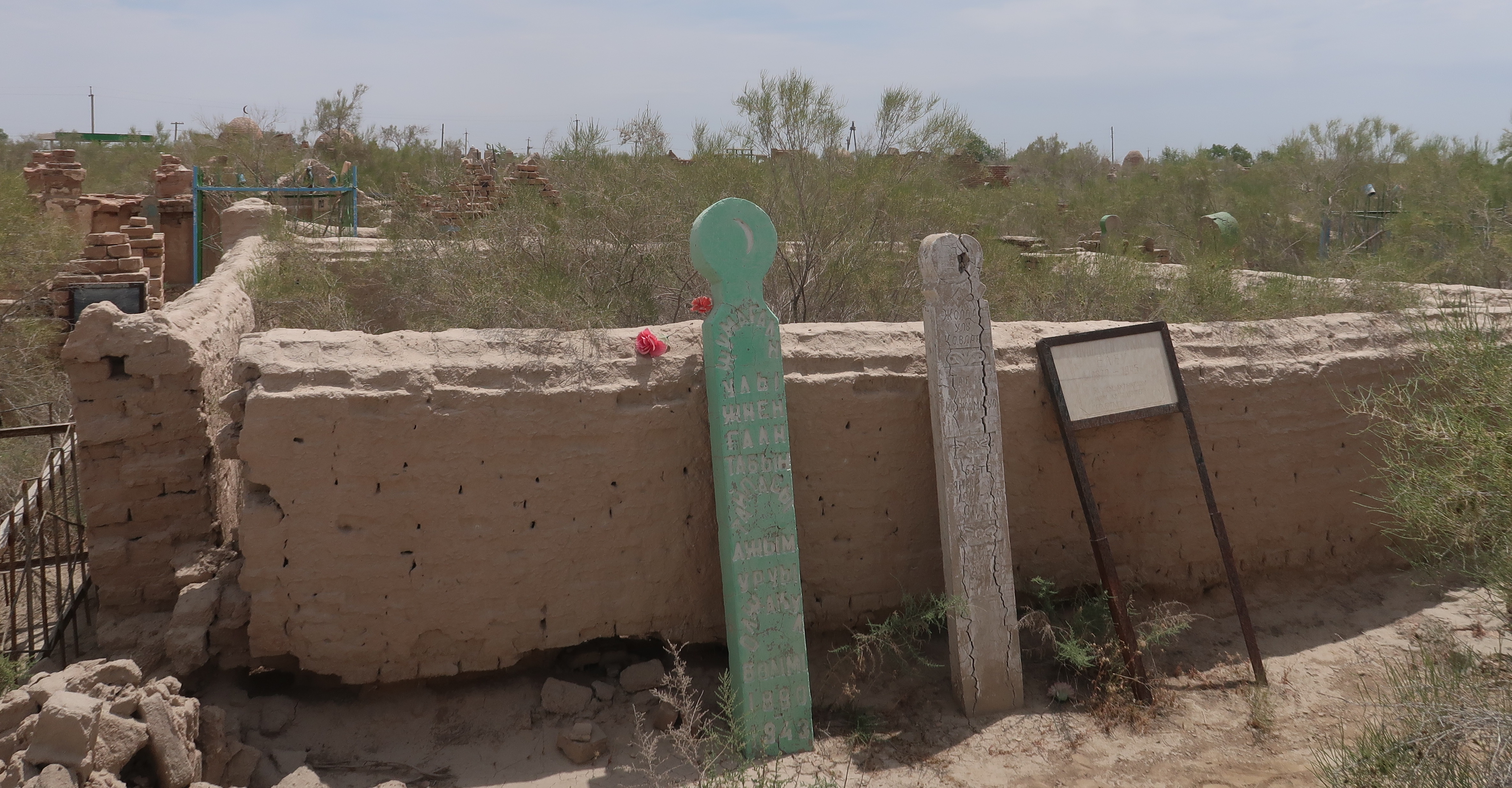 This is the tomb of a famous Kazakh religious person